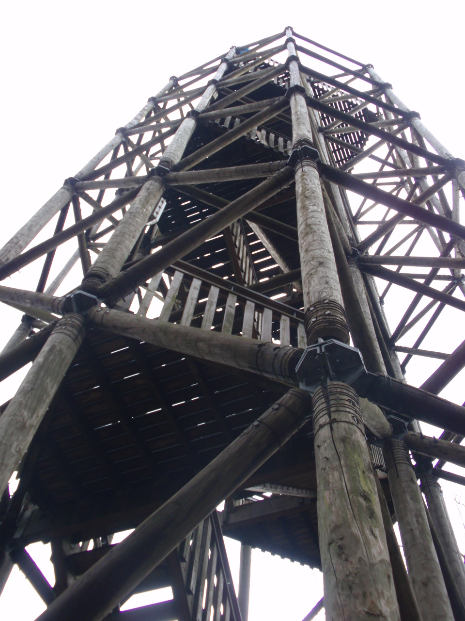 Belvedere in park Berg & Bos, Veluwe, Netherlands